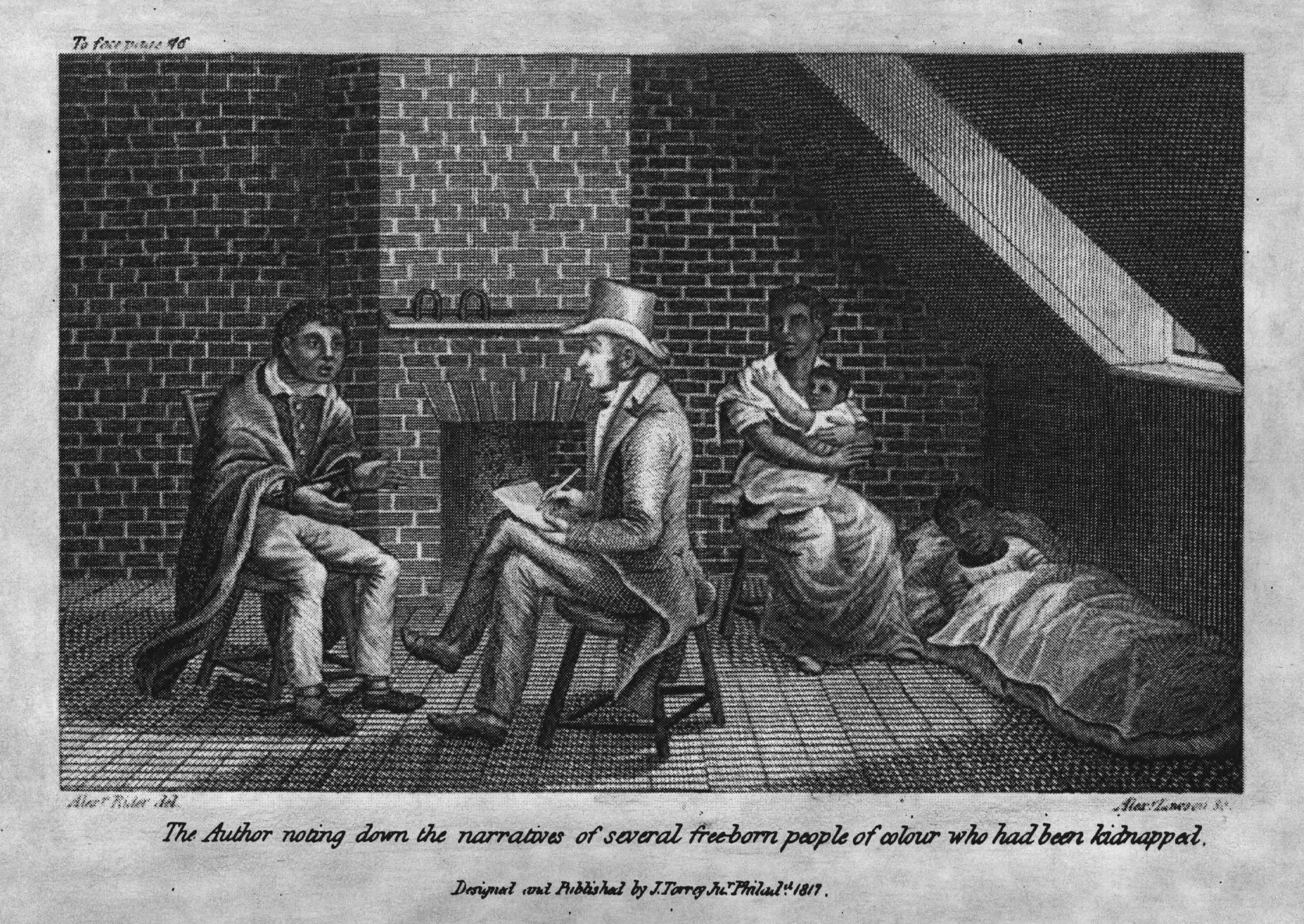 Torrey designed the illustrations for his 1817 book, Portraiture of Slavery, hiring an artist and engraver to complete them.